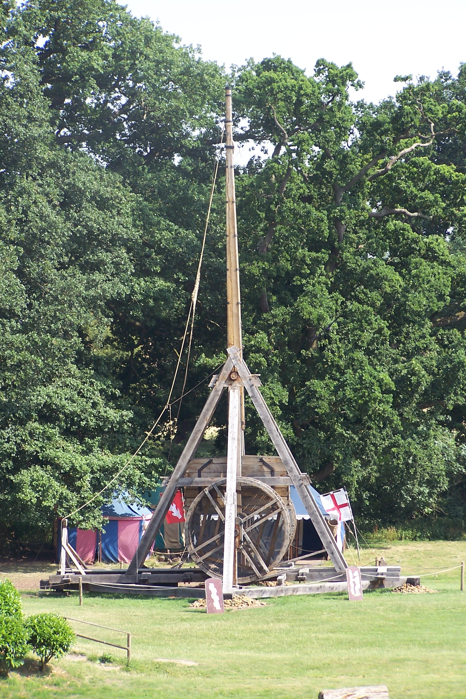 Trebuchet on the River Island at Warwick Castle